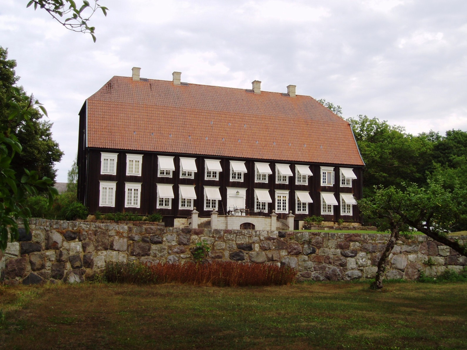 Castle Strömsrum, Mönsterås Municipality, Sweden.